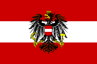 State flag of First Austrian Republic (1918-1934)